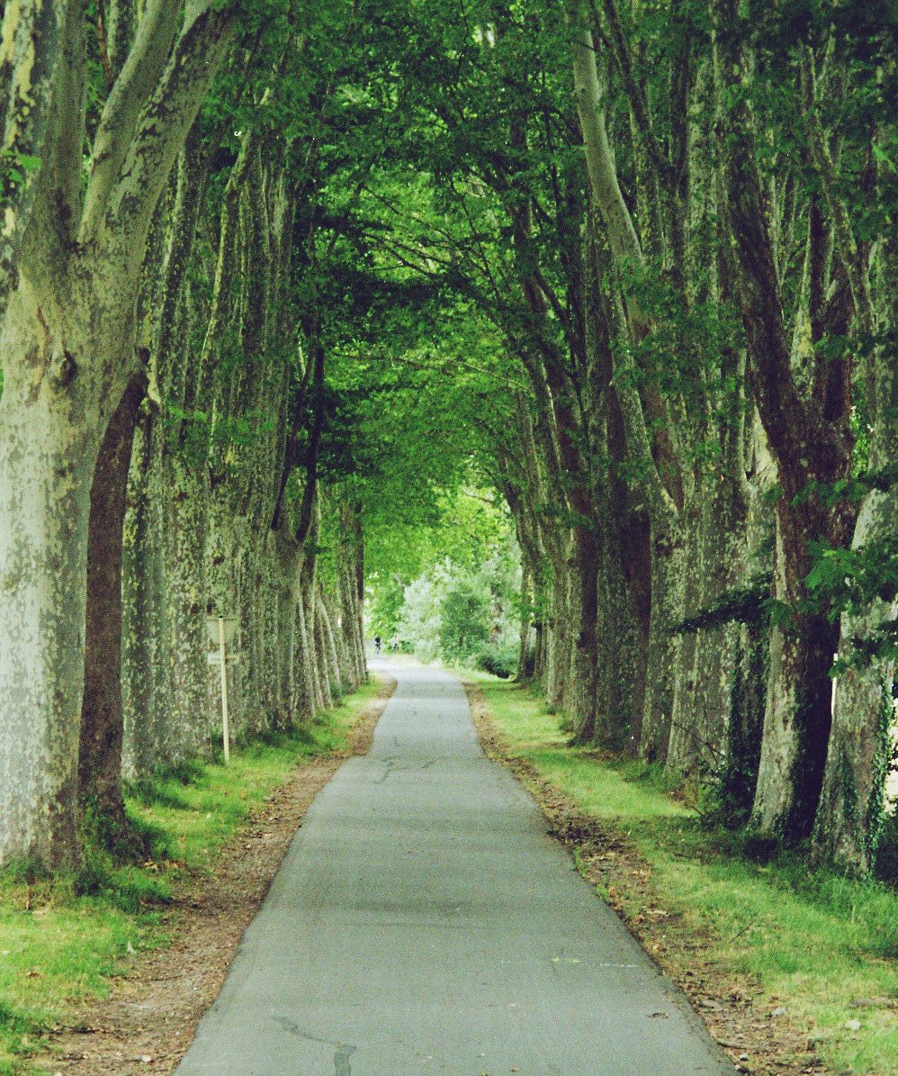 Canal du Midi, near Toulouse.